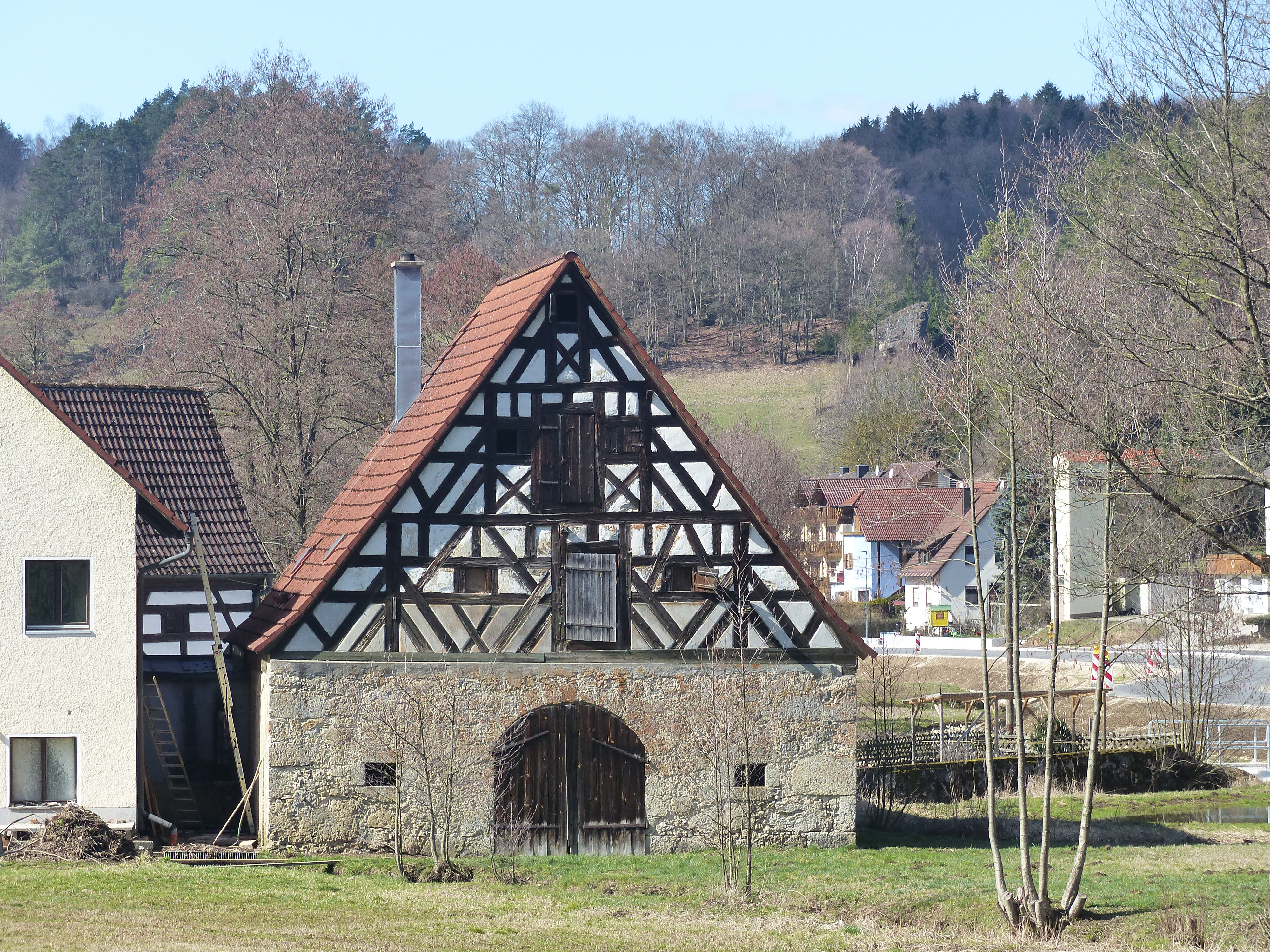 The barn of the farm with the house number 7 in the hamlet Penzenhof, a district of the municipality Etzelwang